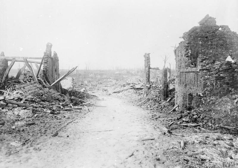 Operations on the Ancre, January-march 1917 Ruins in the village of Puisieux, which the British entered on 28th February 1917.